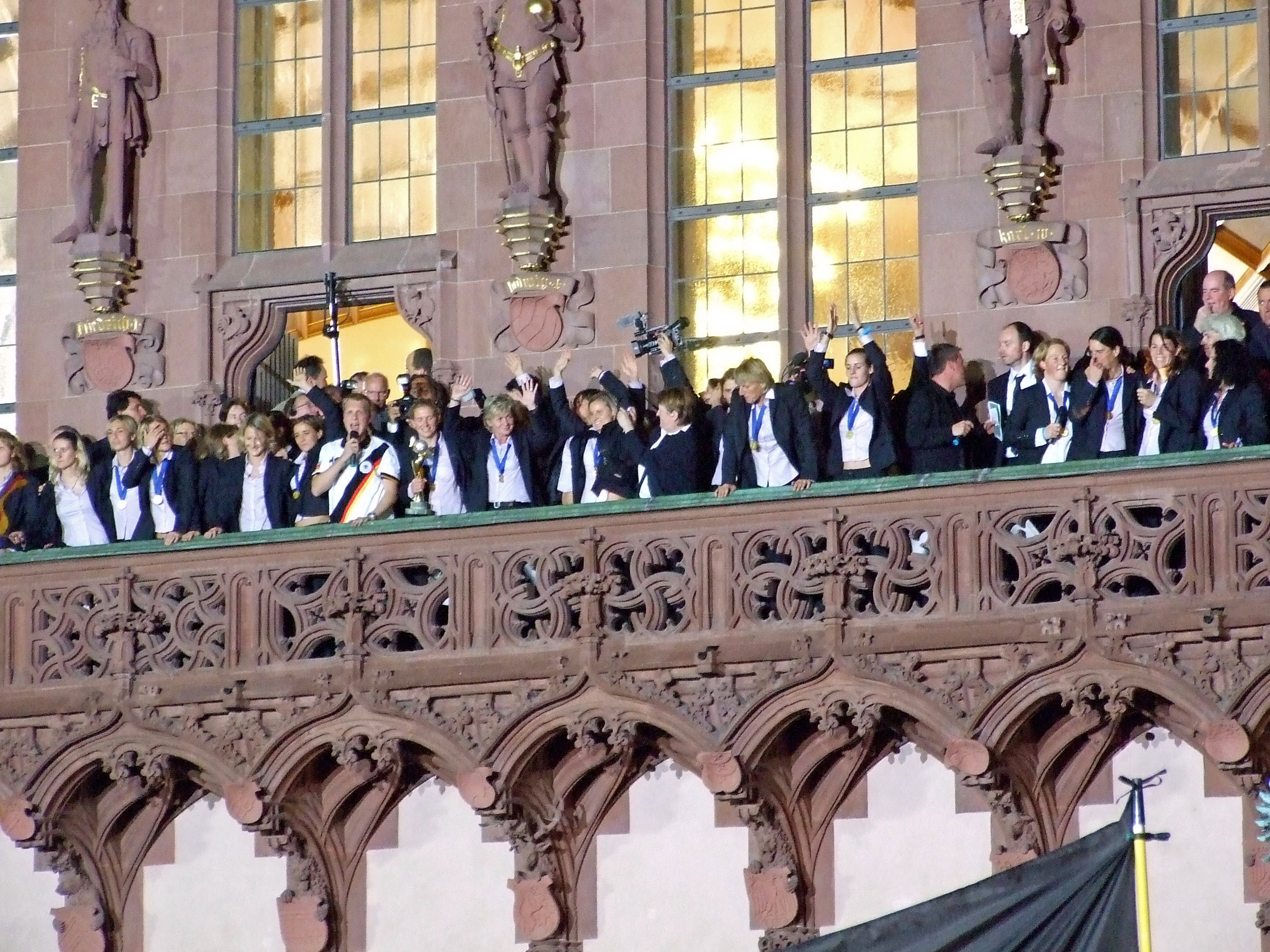 Reception of Germany women's national football team, after winng the 2007 World Cup, on the balcony of Frankfurt's city hall “Römer”.